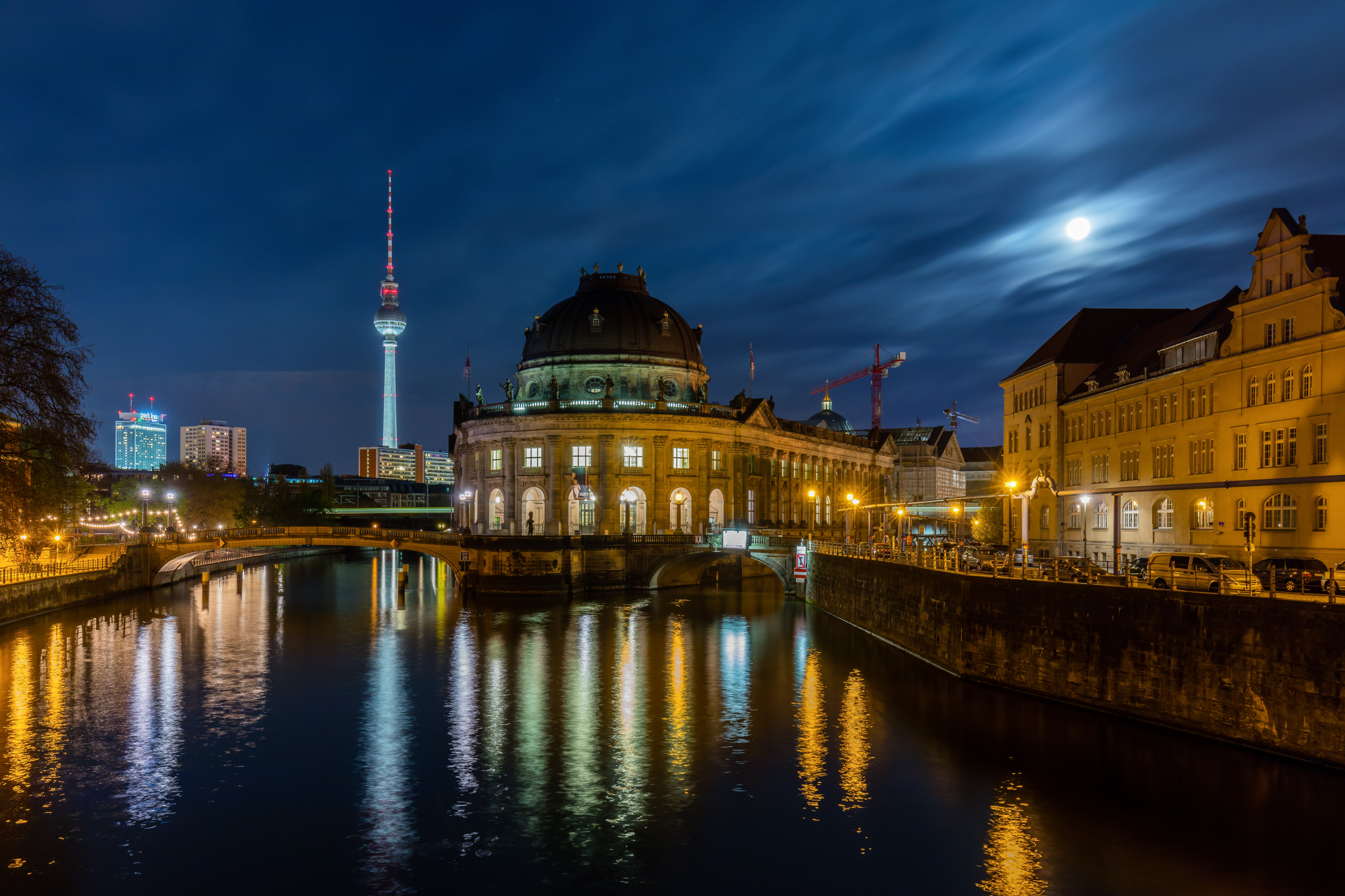 Moon light view of the Bode Museum, located in the Museum Island of Berlin, Germany. The museum, originally called the Kaiser-Friedrich-Museum (after Emperor Frederick III) and later honored to its curator, Wilhelm von Bode, was designed by architect Ernst von Ihne and completed in 1904. The museum hosts a collection of sculptures, Byzantine art, coins and medals.